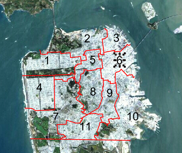 11 Districts San Francisco